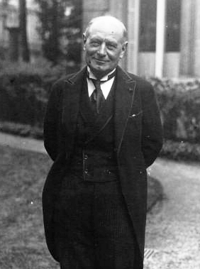 French actor and theatre director and manager Firmin Gémier (1865-1933).